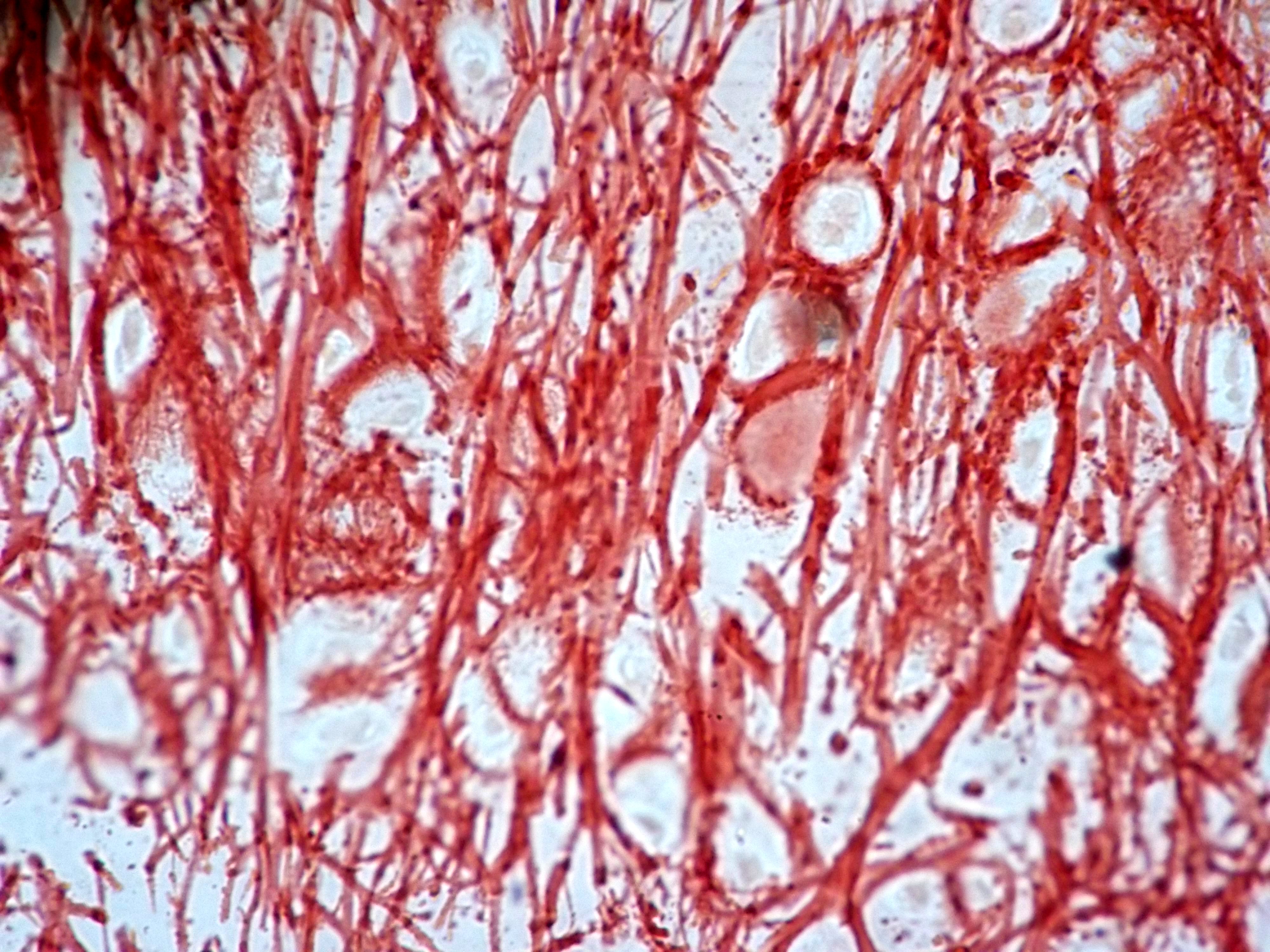 Fibers of elastic cartilague; 400X